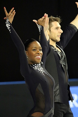 Vanessa James and Morgan Ciprès at the 2015 Trophée Éric Bompard.